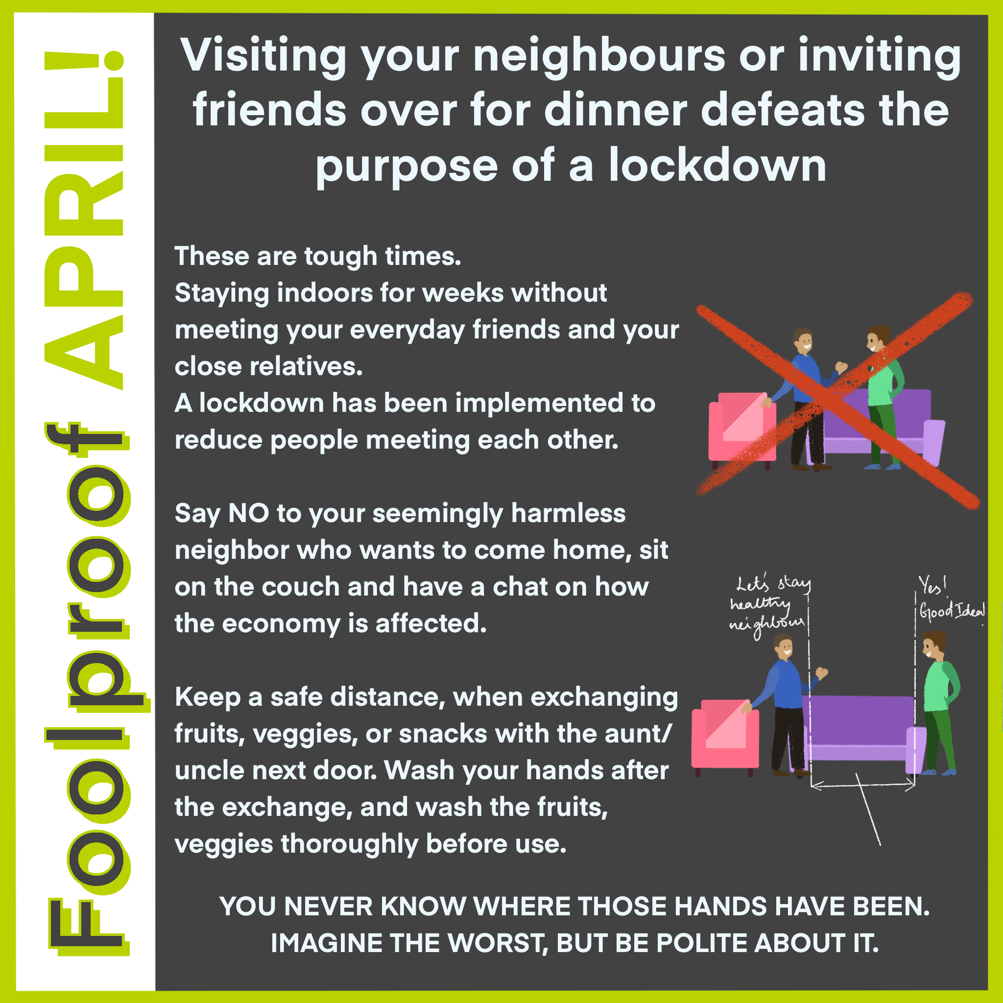 Foolproof April series- busting novel corona virus/Covid-19 myths- Image15